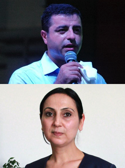 HDP co-leaders Figen Yüksekdağ and Selahattin Demirtaş (adapted for election articles)